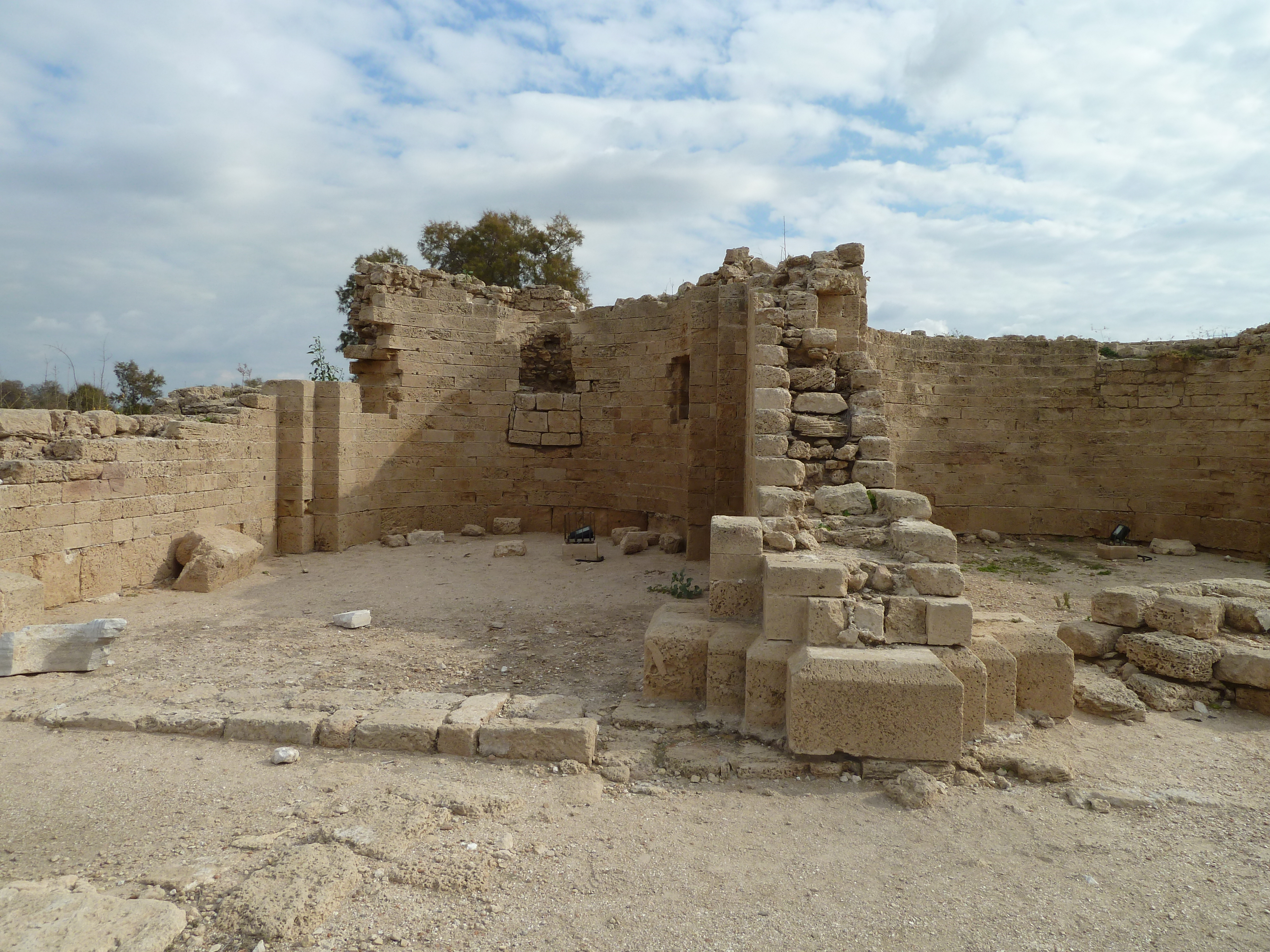 Crusader Church of Caesarea Maritima, Israel